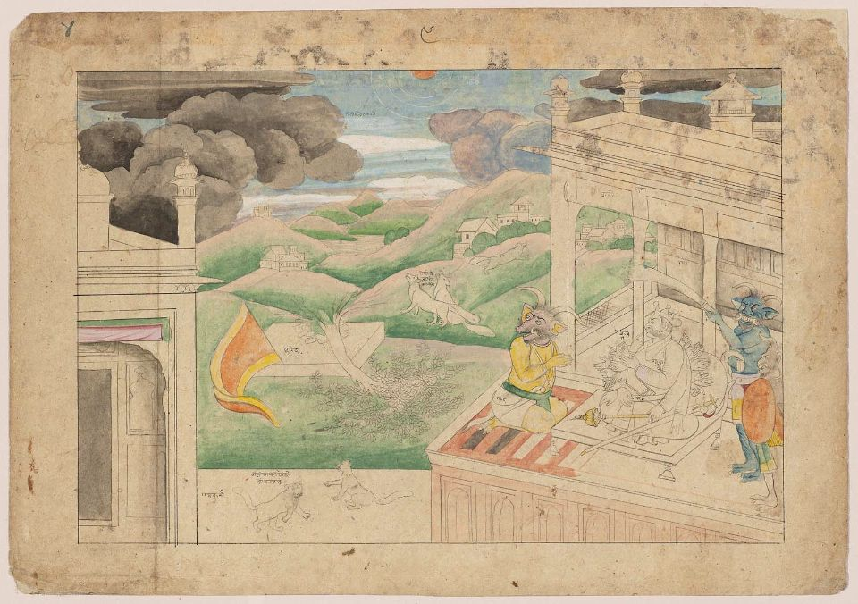 Vanasur Remarking on Evil Omens Inscription Obverse: various places, in Devanagari, short inscriptions. Reverse: stamp Provenance Purchased in India by Ananda Coomaraswamy prior to 1916. Purchased by Denman Waldo Ross in 1917. Given to the MFA in 1917. Credit Line Ross-Coomaraswamy Collection Vanasur Remarking on Evil Omens Indian, Pahari, about 1800 Attributed to The Family of Nainsukh, Kangra style, Punjab Hills, Northern India Dimensions Overall: 25 x 36.1 cm (9 13/16 x 14 3/16 in.) Image: 20.3 x 30.5 cm (8 x 12 in.) Medium or Technique Ink and opaque watercolor on paper Classification Paintings Type Page from an unfinished illustrated manuscript of Aniruddha and Usha Accession Number 17.2441 Not on view